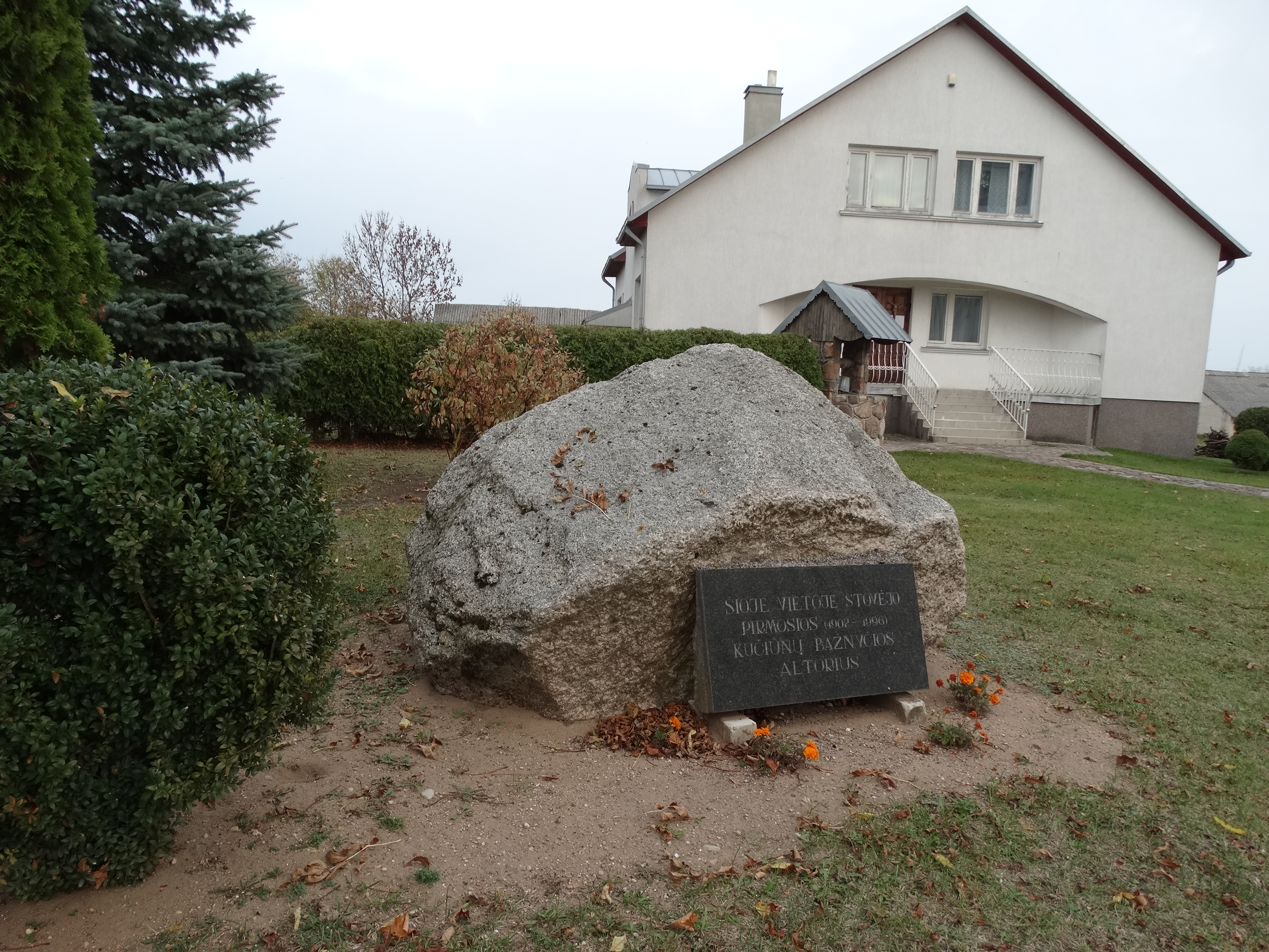 Stone in churchyard, Kučiūnai, Lazdijai district, Lithuania